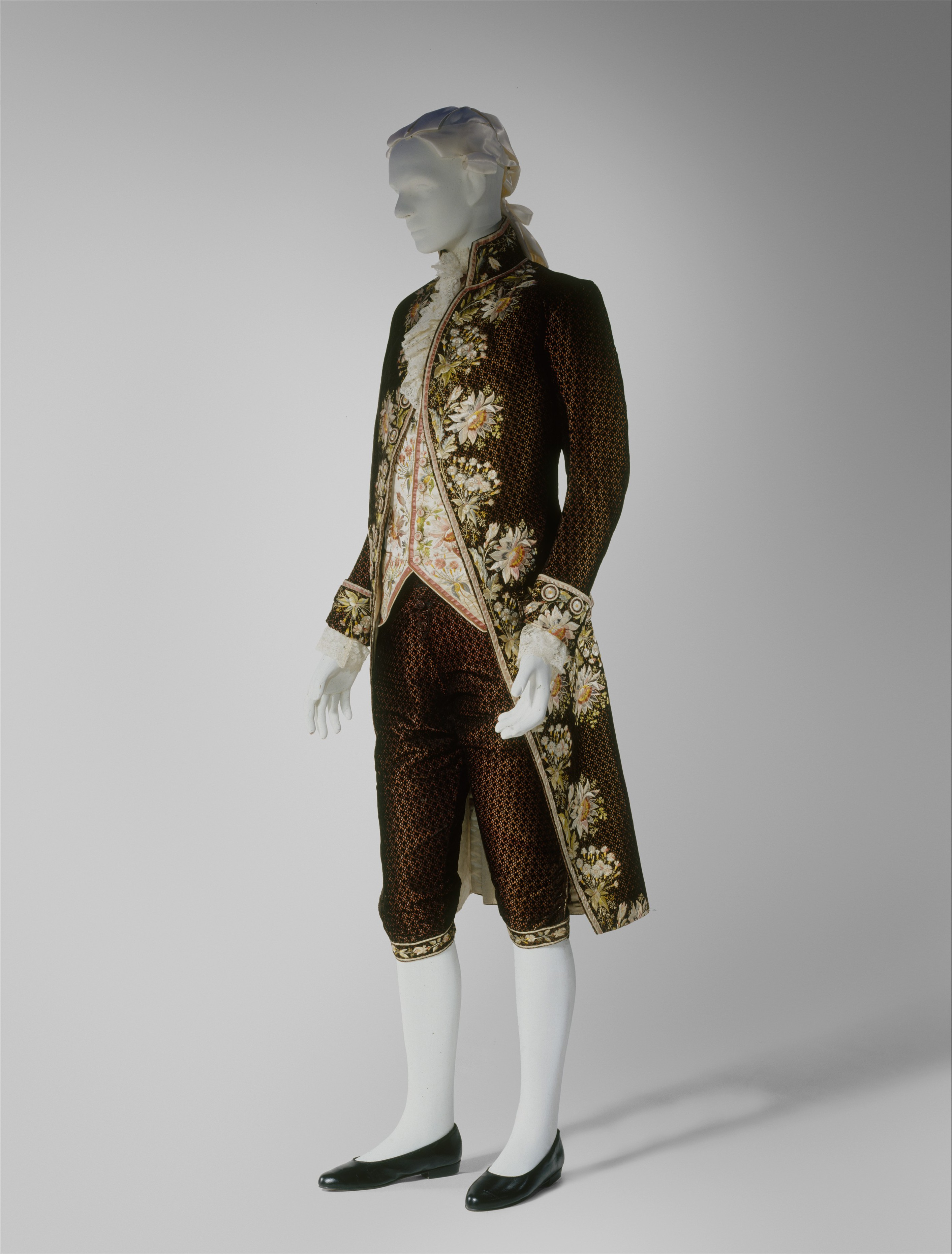 French; Court Suit